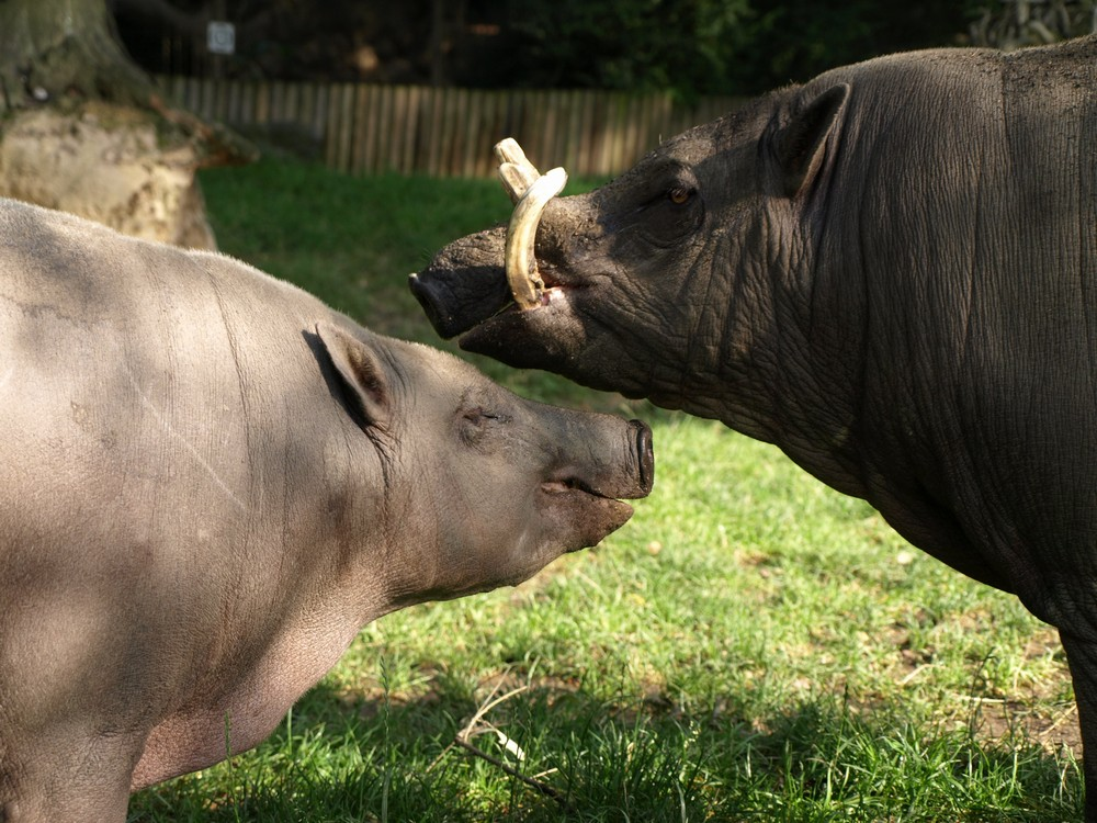 North Sulawesi Babirusa in the zoo in Děčín, Czech Republic.